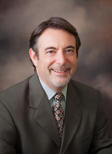 Bay Area AQMD representative to CARB, John Gioia.